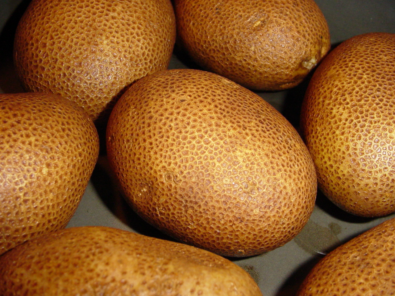 organic cultivated Russet Burbank potato